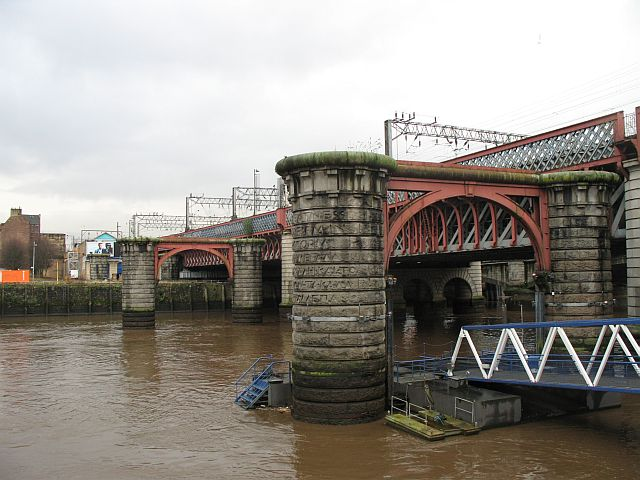 First Caledonian Railway Bridge Piers of what was once part of a wider selection of tracks running into Central Station. This was the first railway bridge here, built in 1878 and the deck removed in the 1960s. The neighbouring second bridge is still in use. The pontoon was used by a short lived water bus service.